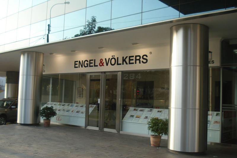 Engel & Völkers location in Lima, Peru